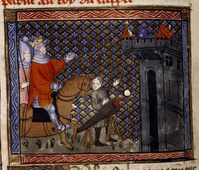 Council. King Philippe Dieu-donné passes judgement on heretics